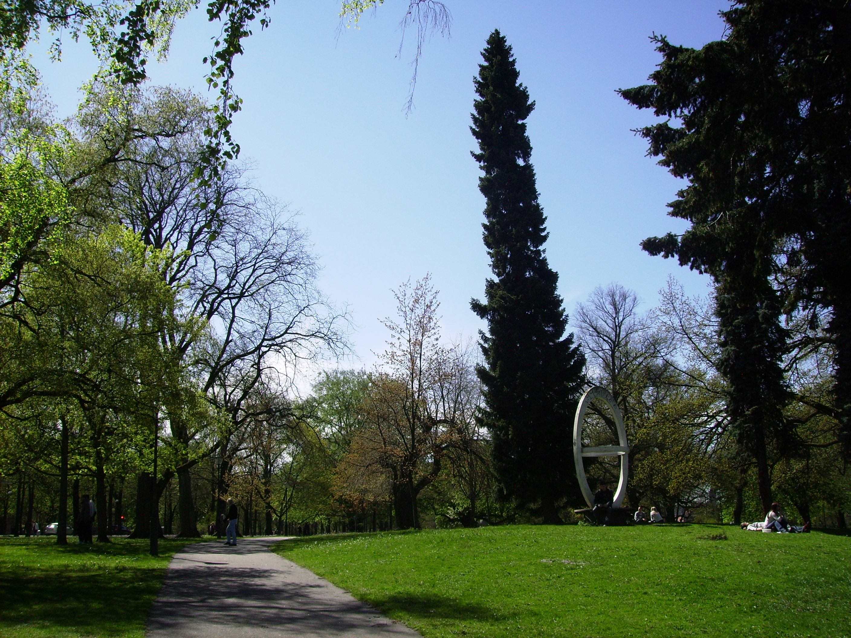 Picture of Kungsparken in Göteborg